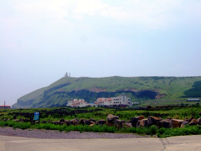 Udo, jeju, South Korea